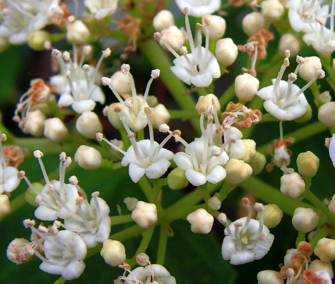 The flowers of cultivated Guelder rose (Viburnum opulus). Moscow region, Russia.